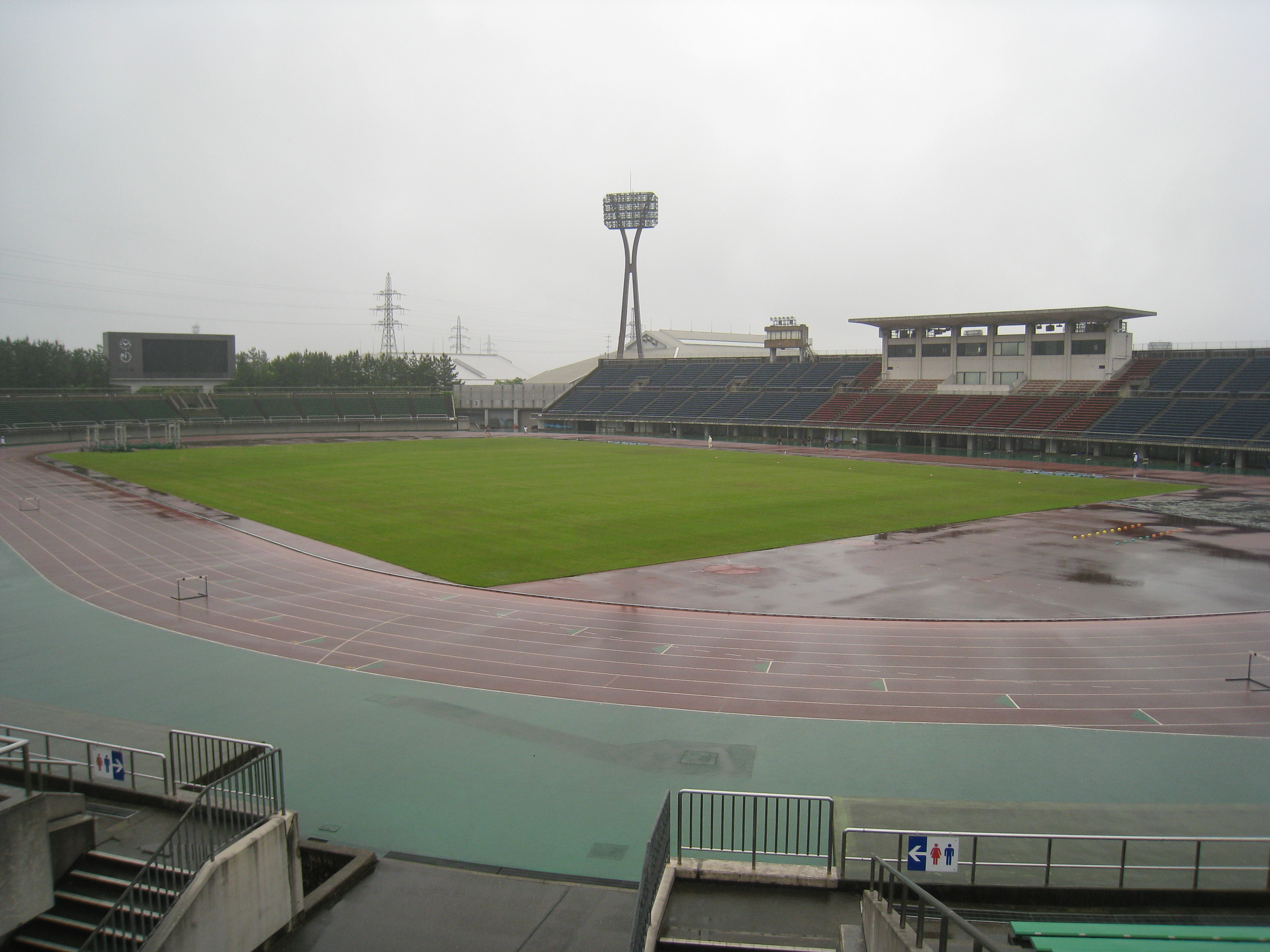 Seibu ryokuchi stadium. Kanazawa City,Ishikawa-pref,Japan